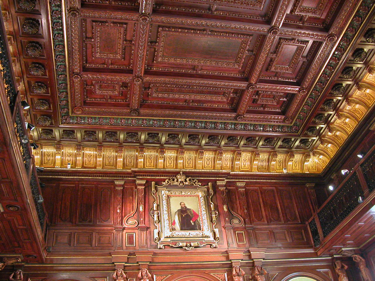 Österr. Ingenieur- und Architektenverein - Dieses Bild wurde anlässlich des österreichischen Tags des Denkmals 2012 in Wien eingereicht.